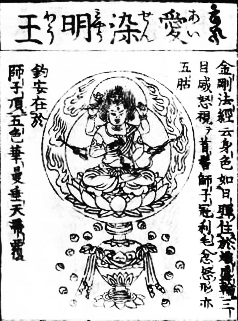 Ragaraja, as one of Buddhist deities.